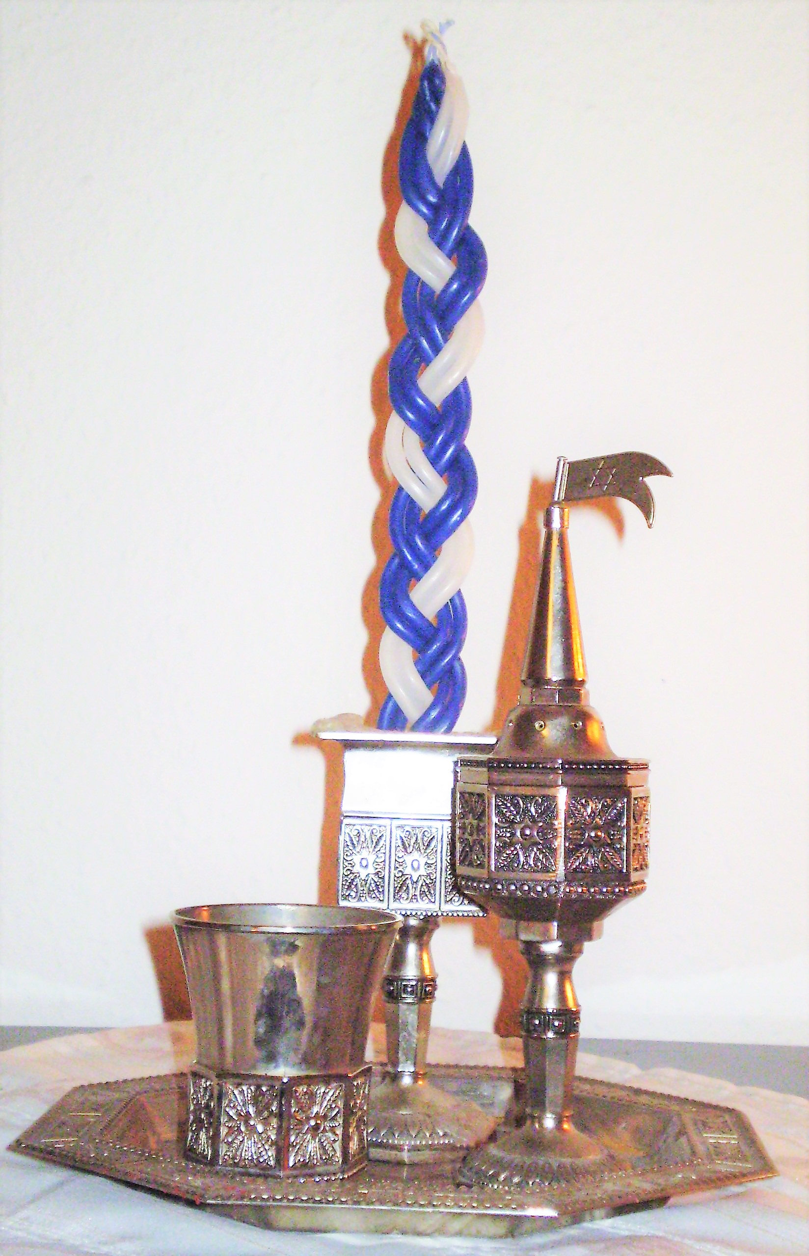 Havdalah Candle with kiddush cup and bisamim